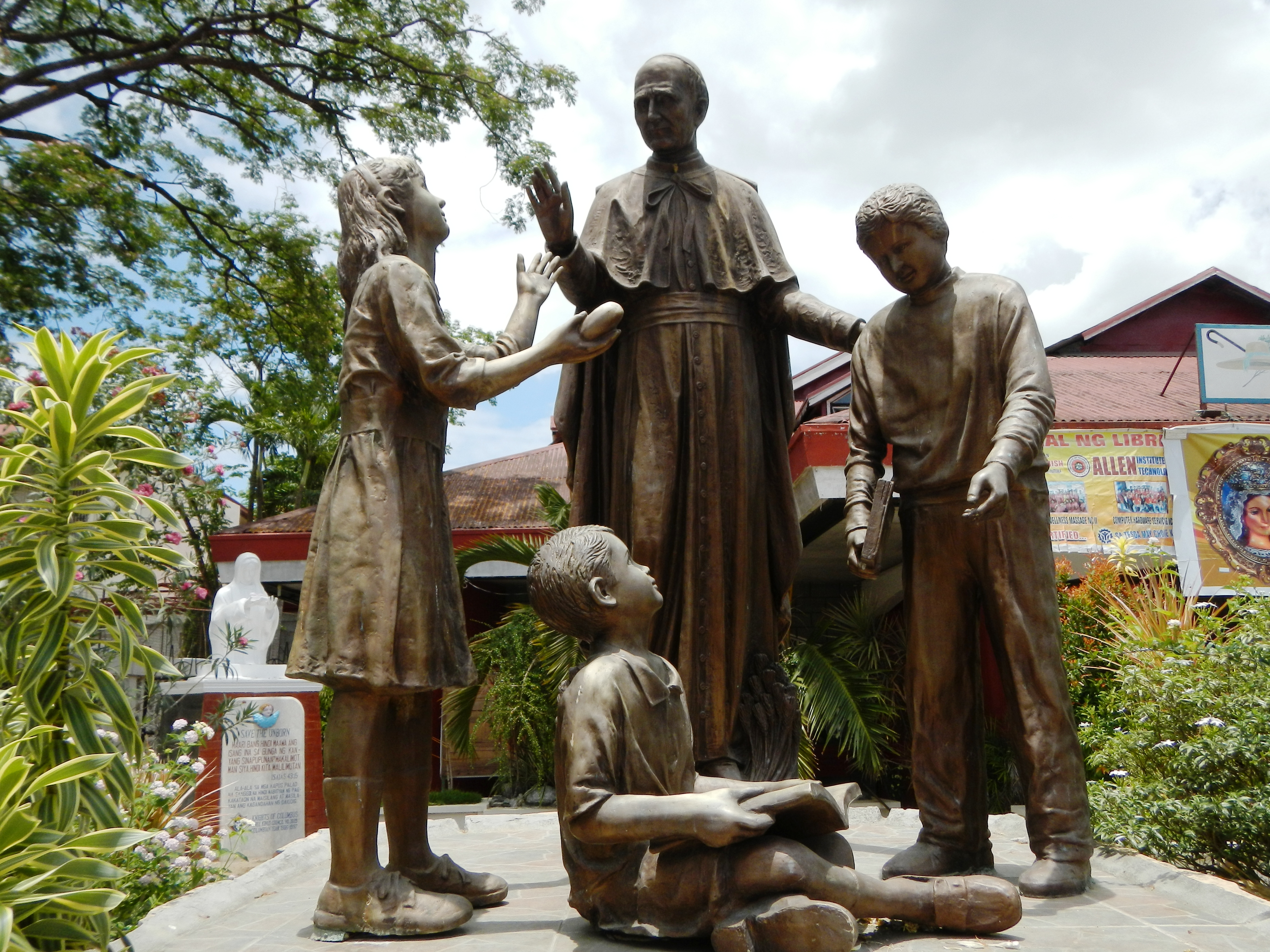 Divine Shepherdess Shrine in Gapan, Nueva Ecija and Statue of St. Hannibal Mary di Francia at, Gapan Nueva Ecija Province, Barangay San Lorenzo.